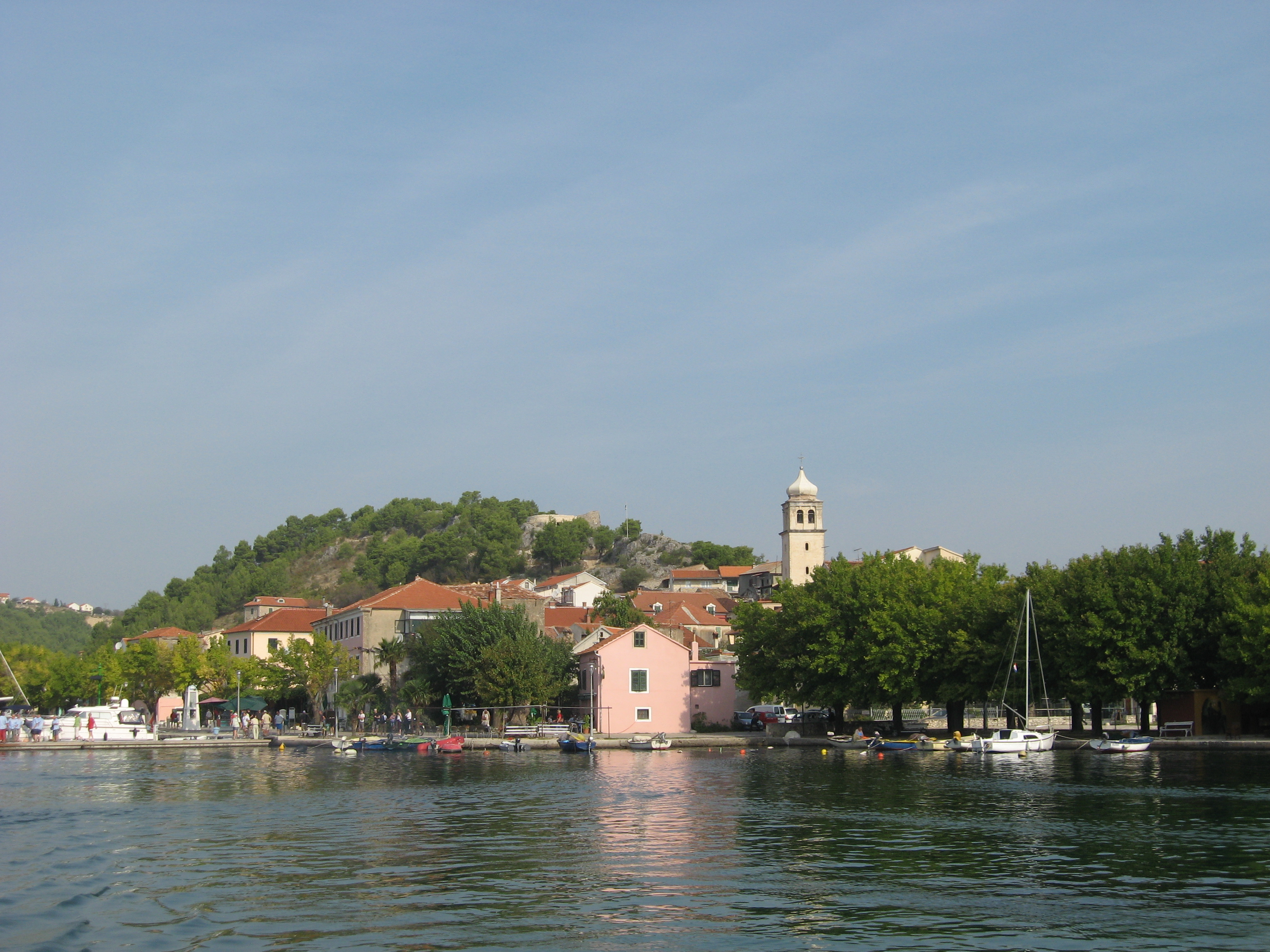 Skradin (Croatia) from the boat to Krka national park